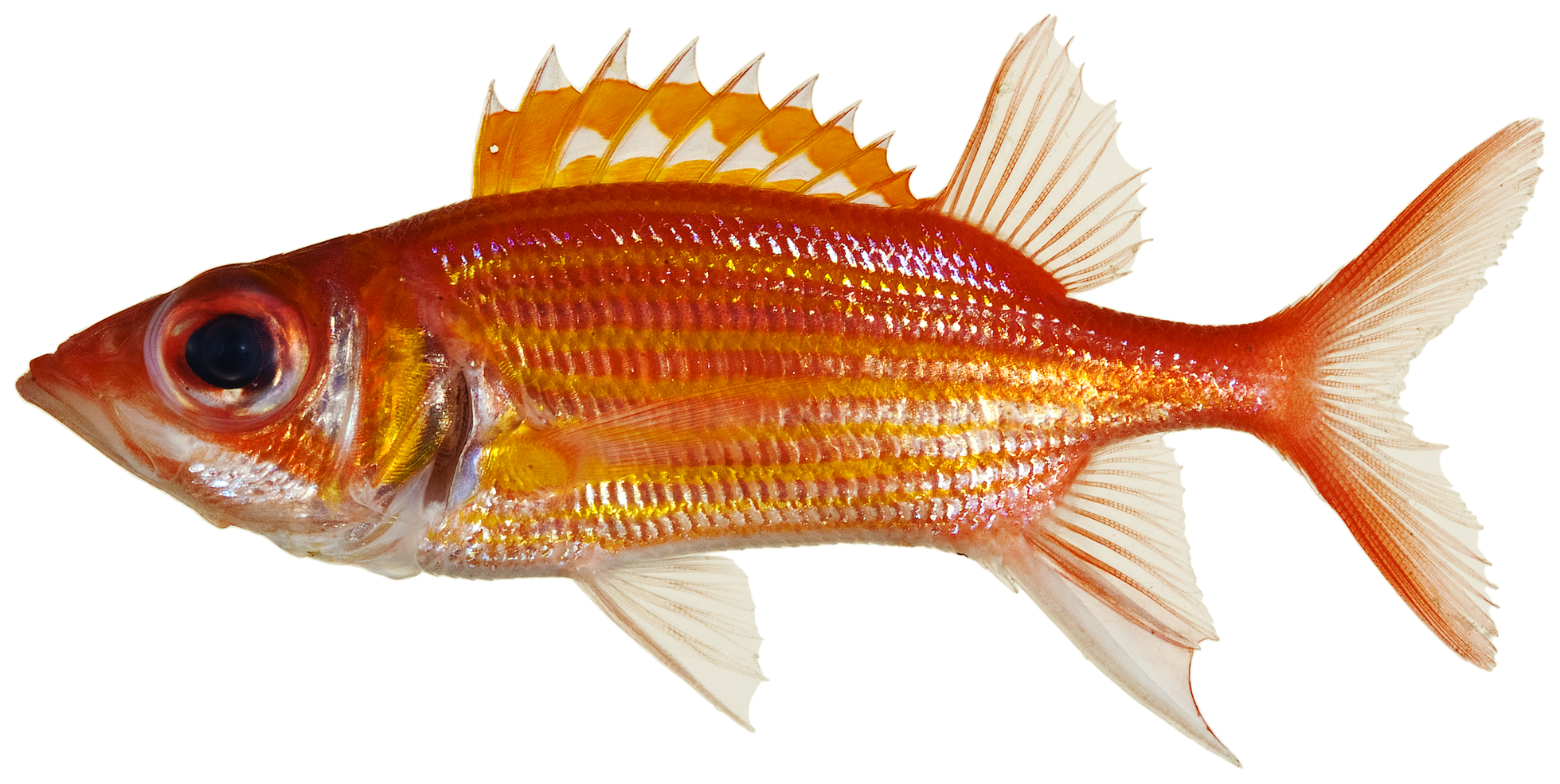 Neoniphon marianus (Cuvier, 1829)—longjaw squirrelfish, 98.2 mm SL. Photo by JT Williams.